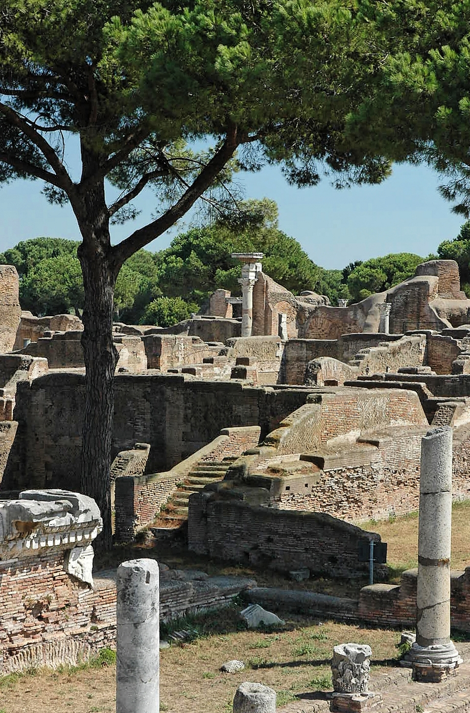 View of the Forum from the Capitolium. Ostia Antica, Latium, Italy.